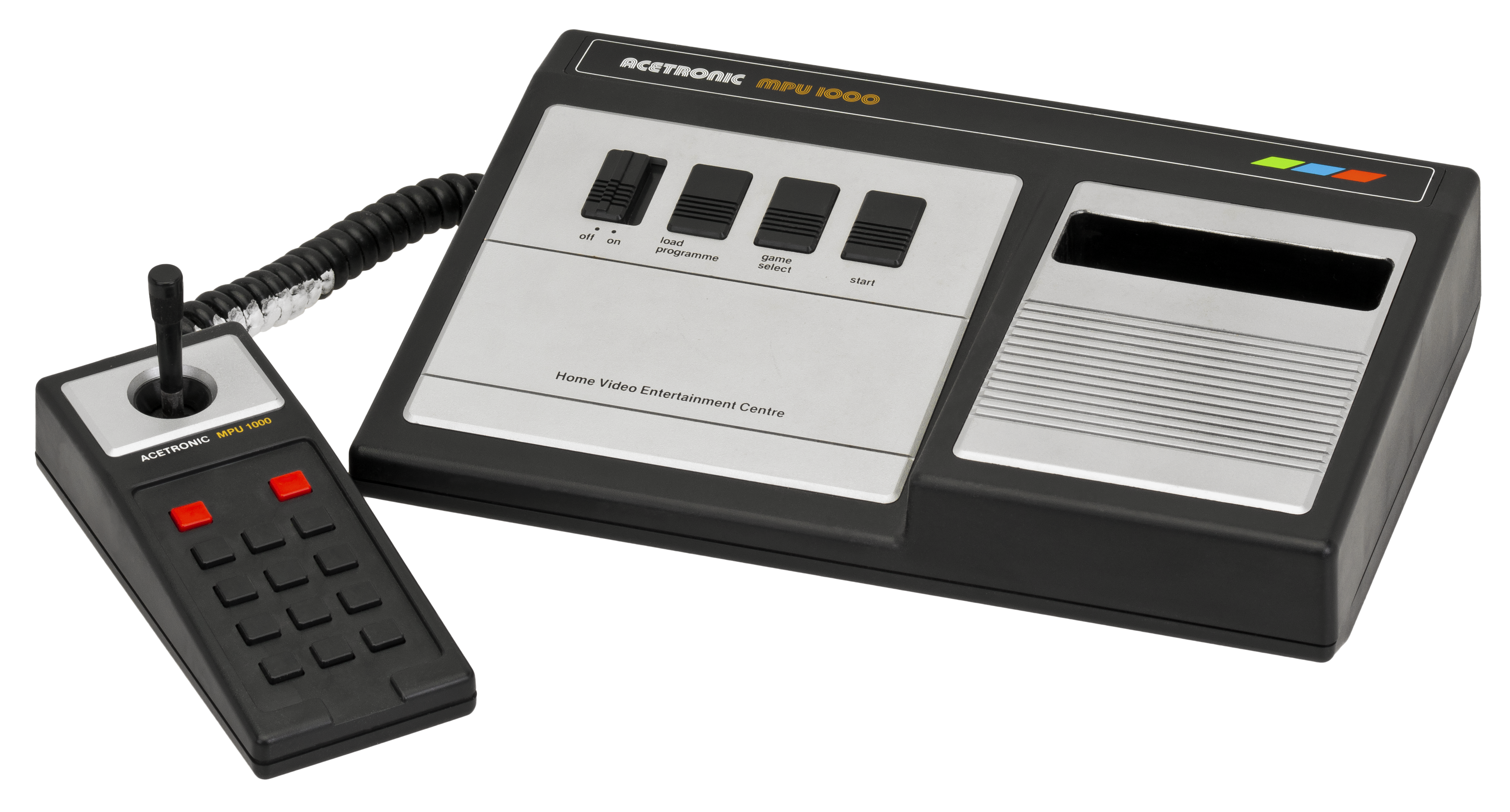 The Acetronic MPU 1000, a video game console that was a part of the 1292 Advanced Programmable Video System family. Note that the white on the controller cord is styrofoam that melded to the cord in the box.